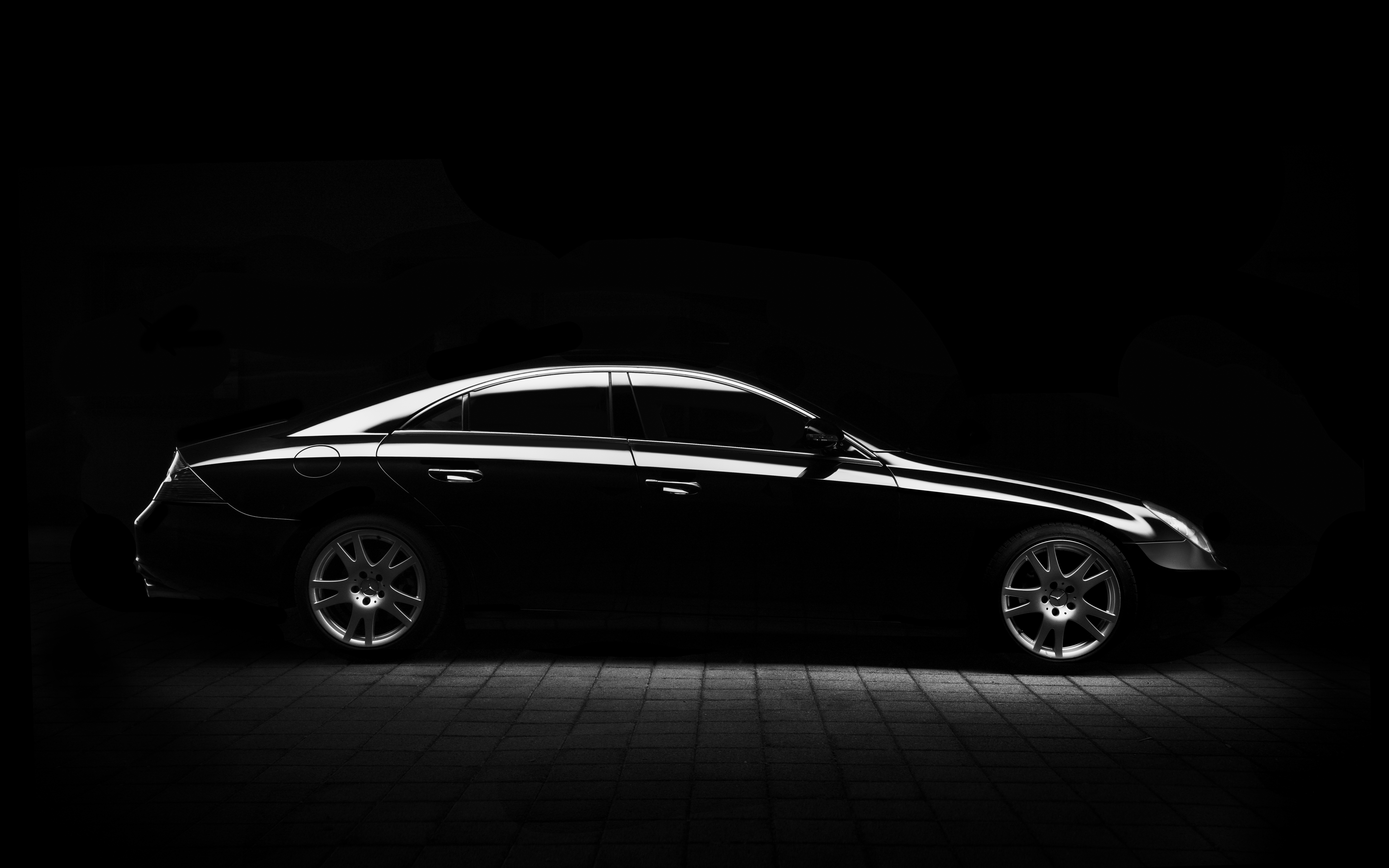 Samuele Errico Piccarini 2017-01-24